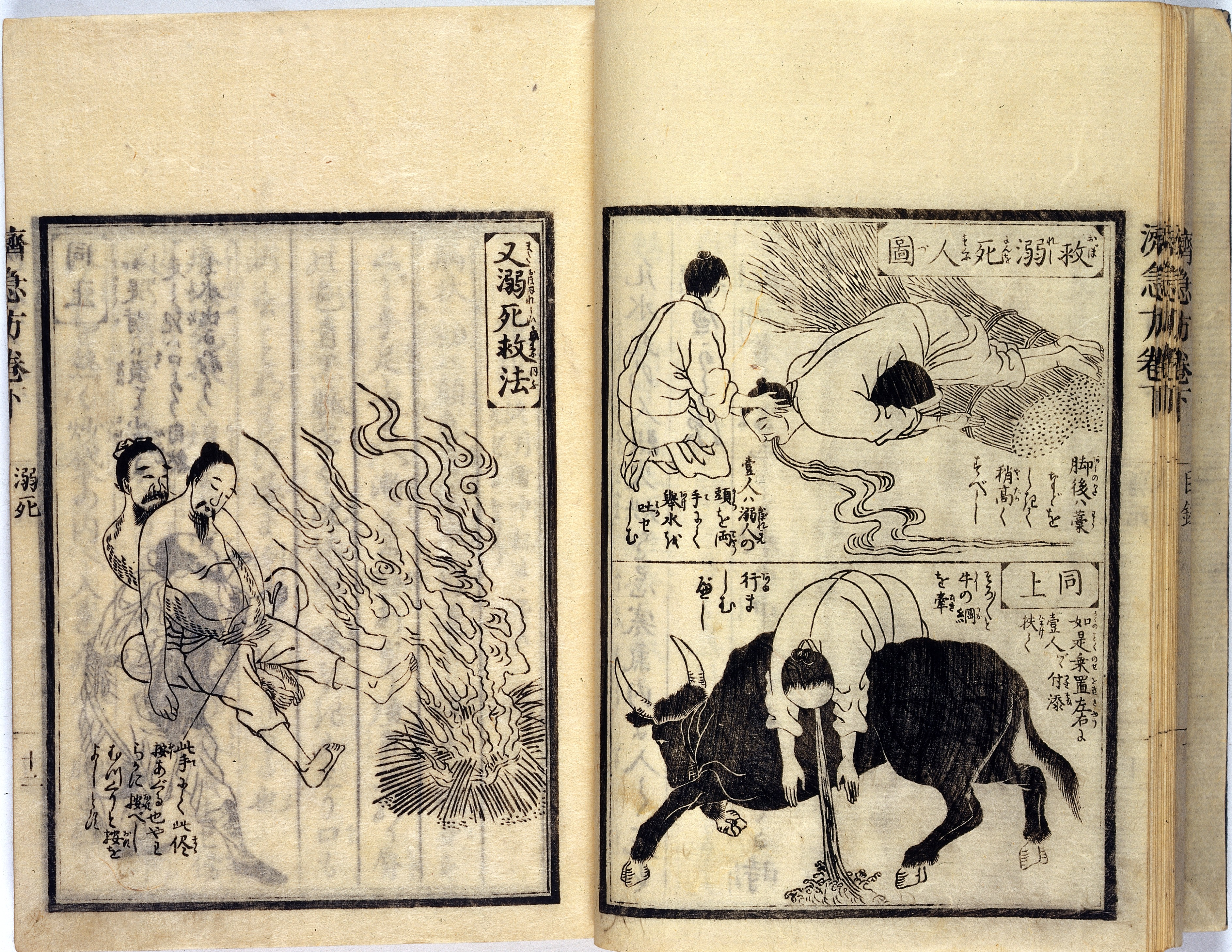 Three illustrations showing various techniques for dealing with somebody who has been rescued from drowning. Asian Collection Keywords: Drowning; Taki Rankei; Recovery; Asian Continental Ancestry Group; Japanese; Japan